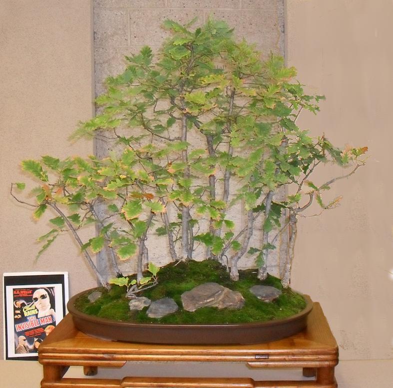 Gloria Stuart bonsai called "French black oak forest." Was planted by Gloria Stuart in 1982 after returning from France where she picked the acorns while touring the royal forest surrounding the palace at Fontainebleau, near Paris.